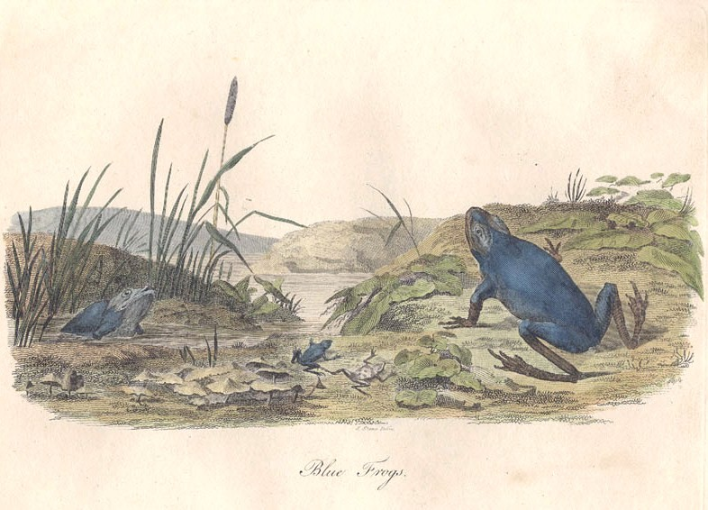 "Blue Frog" (Rana caerulea) = Australian Green Tree Frog (Litoria caerulea)